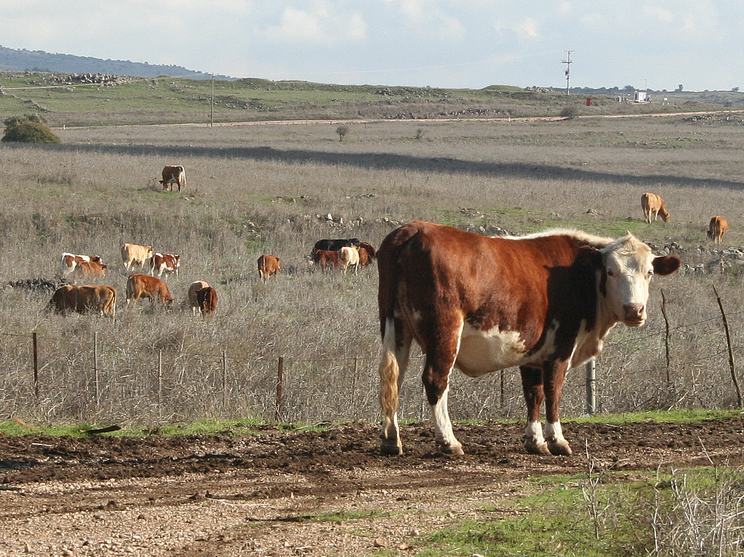 Cows on the Golan Hights